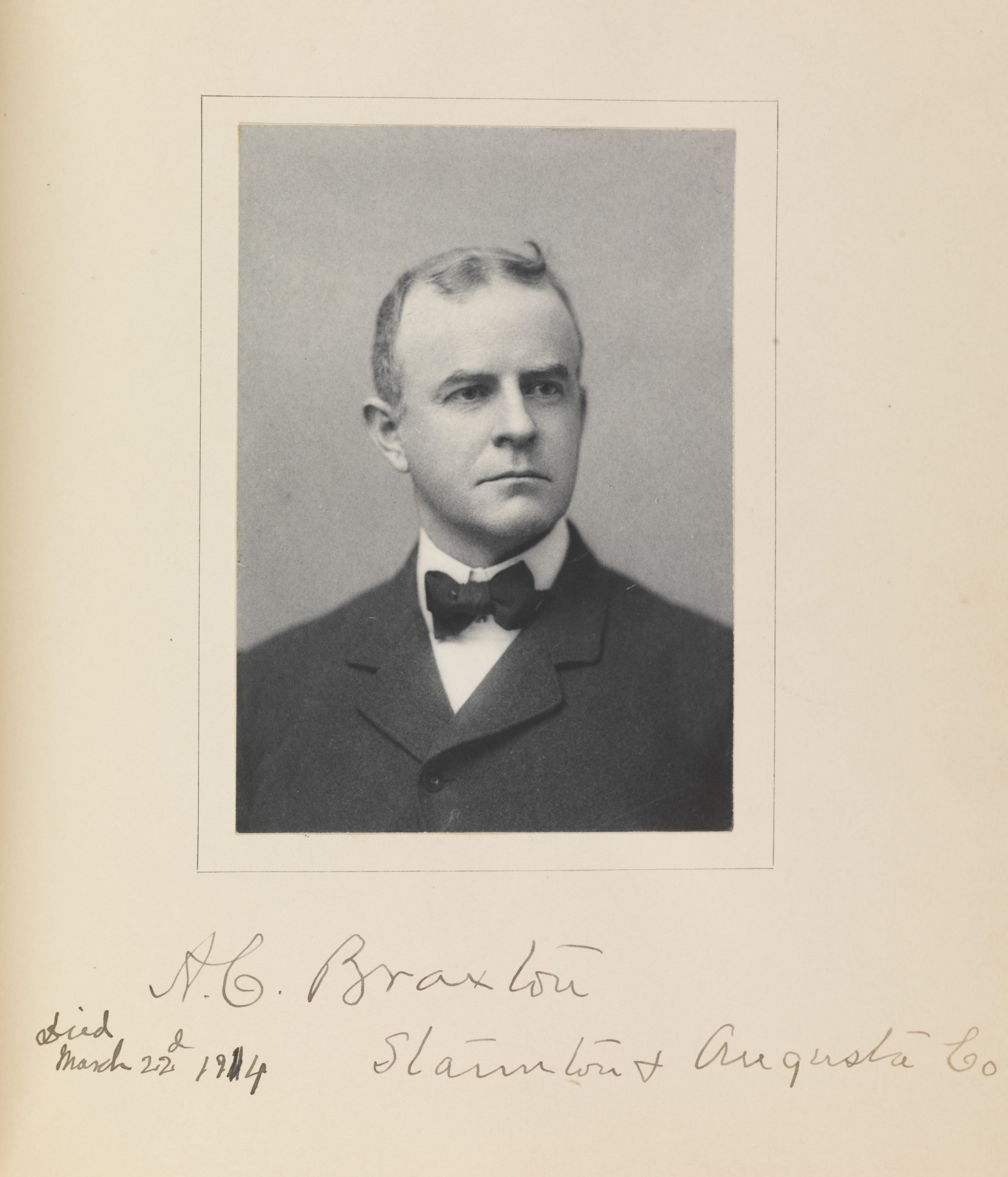 Portrait and signature of Allen Caperton Braxton, for the Virginia Constitutional Convention of 1901-1902